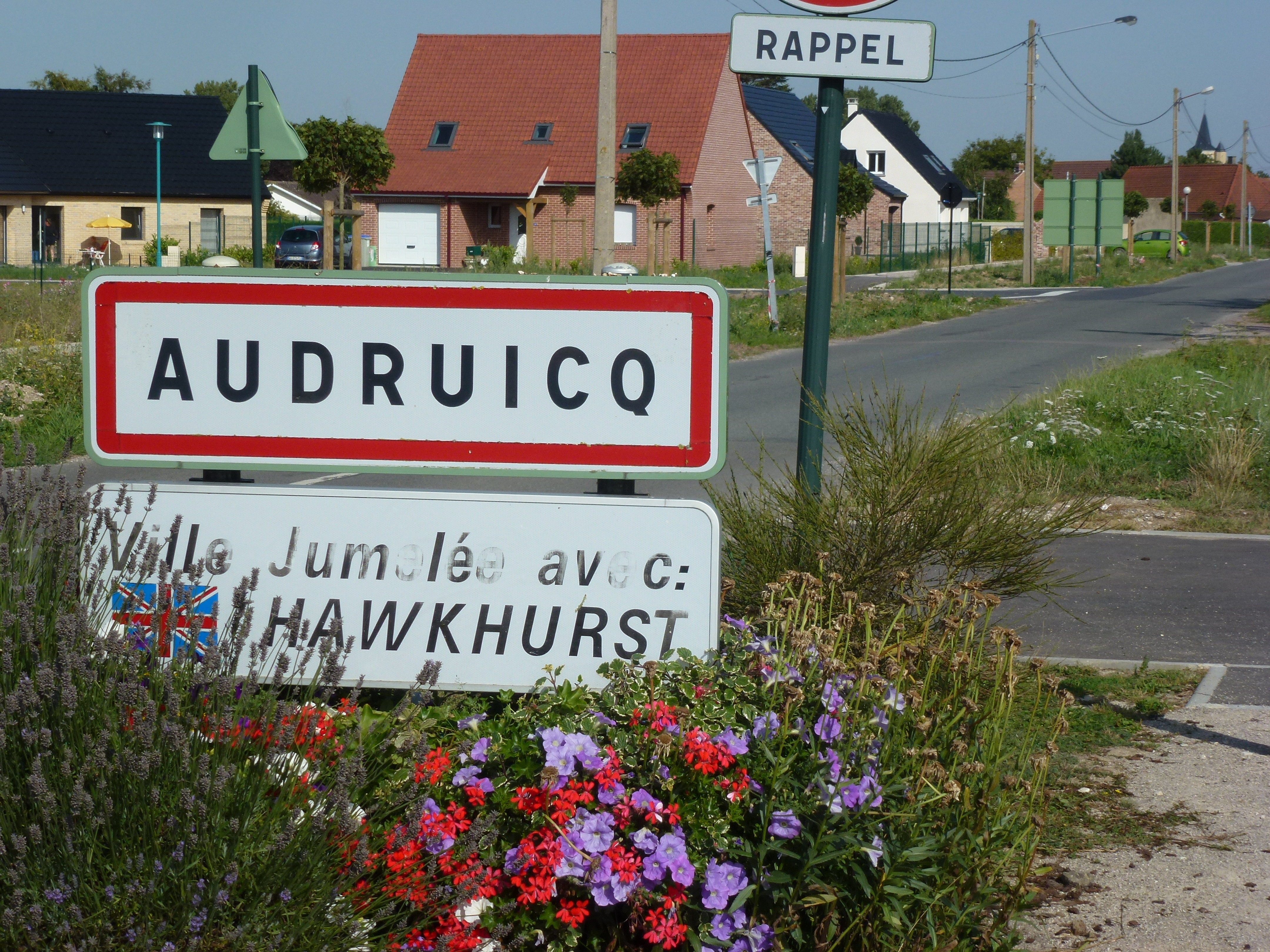 Audruicq (Pas-de-Calais) city limit sign